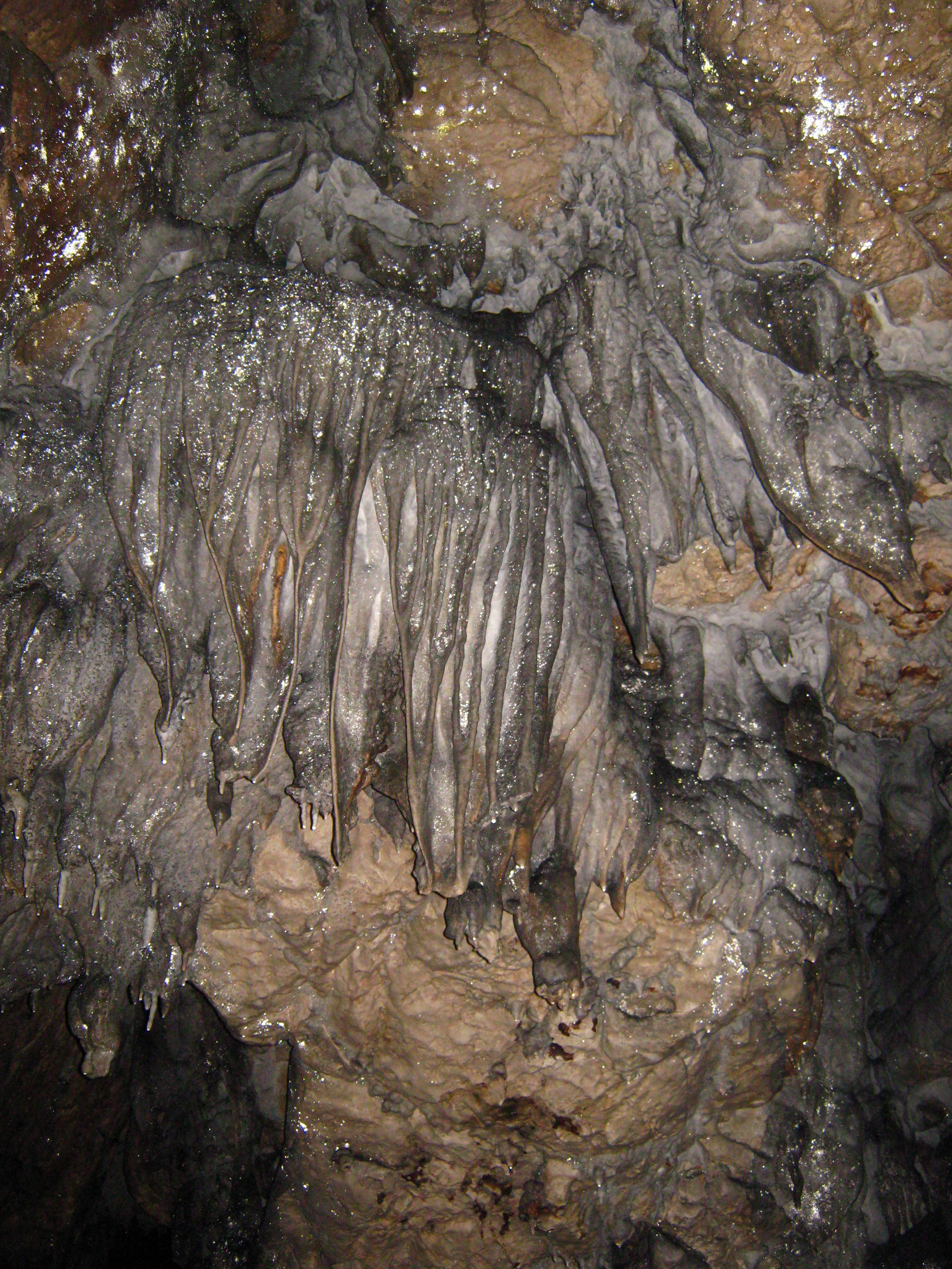 Rastuska pecina 2